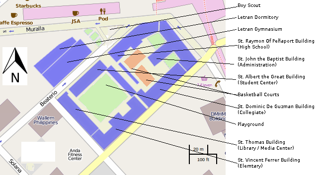 map of the